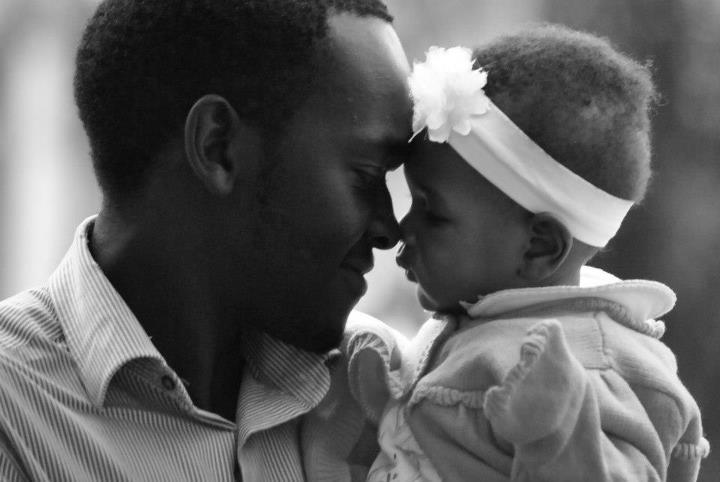 A moment of seeing yourself in another eyes